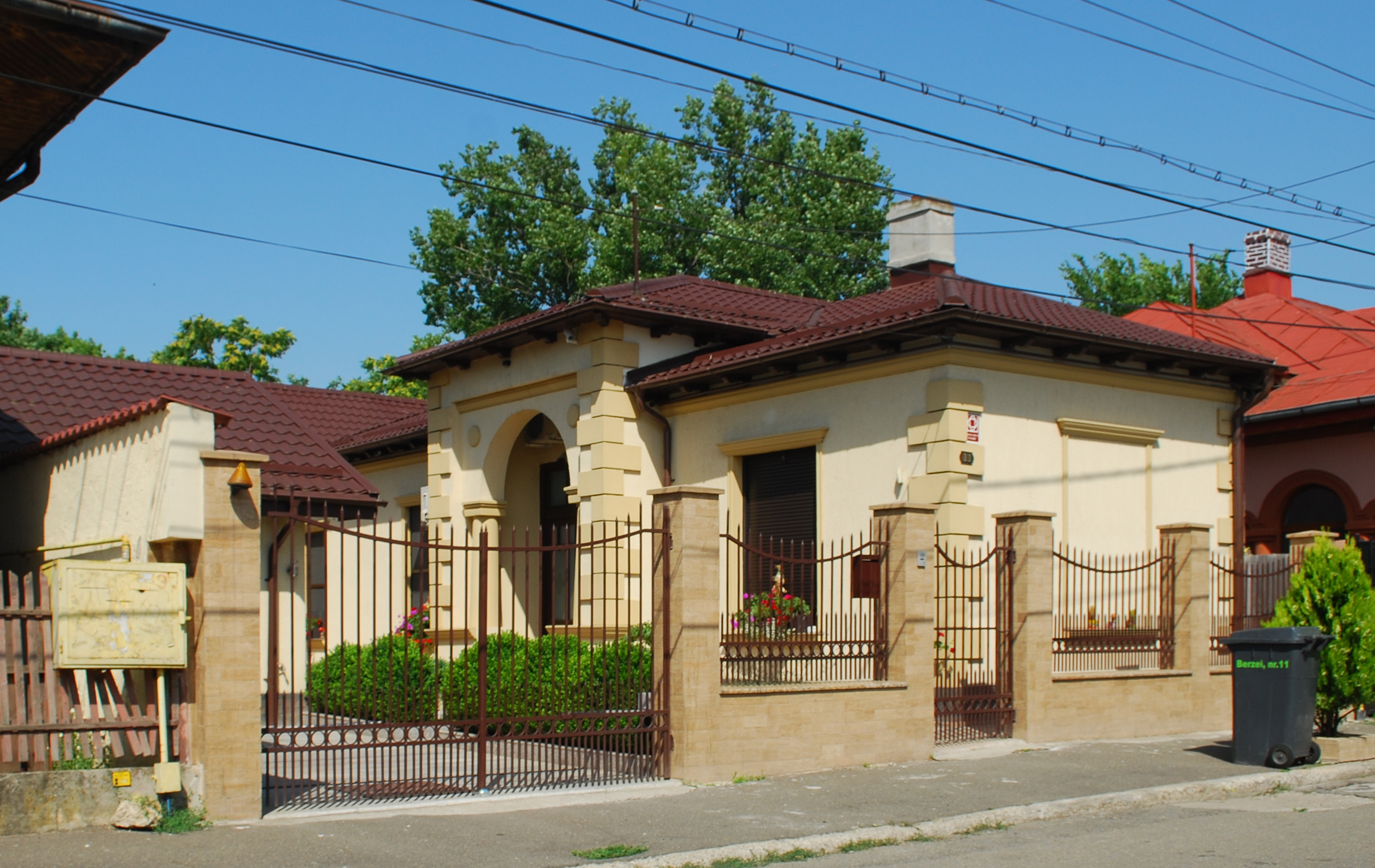 House in 11 Berzei street, Călărași, Romania